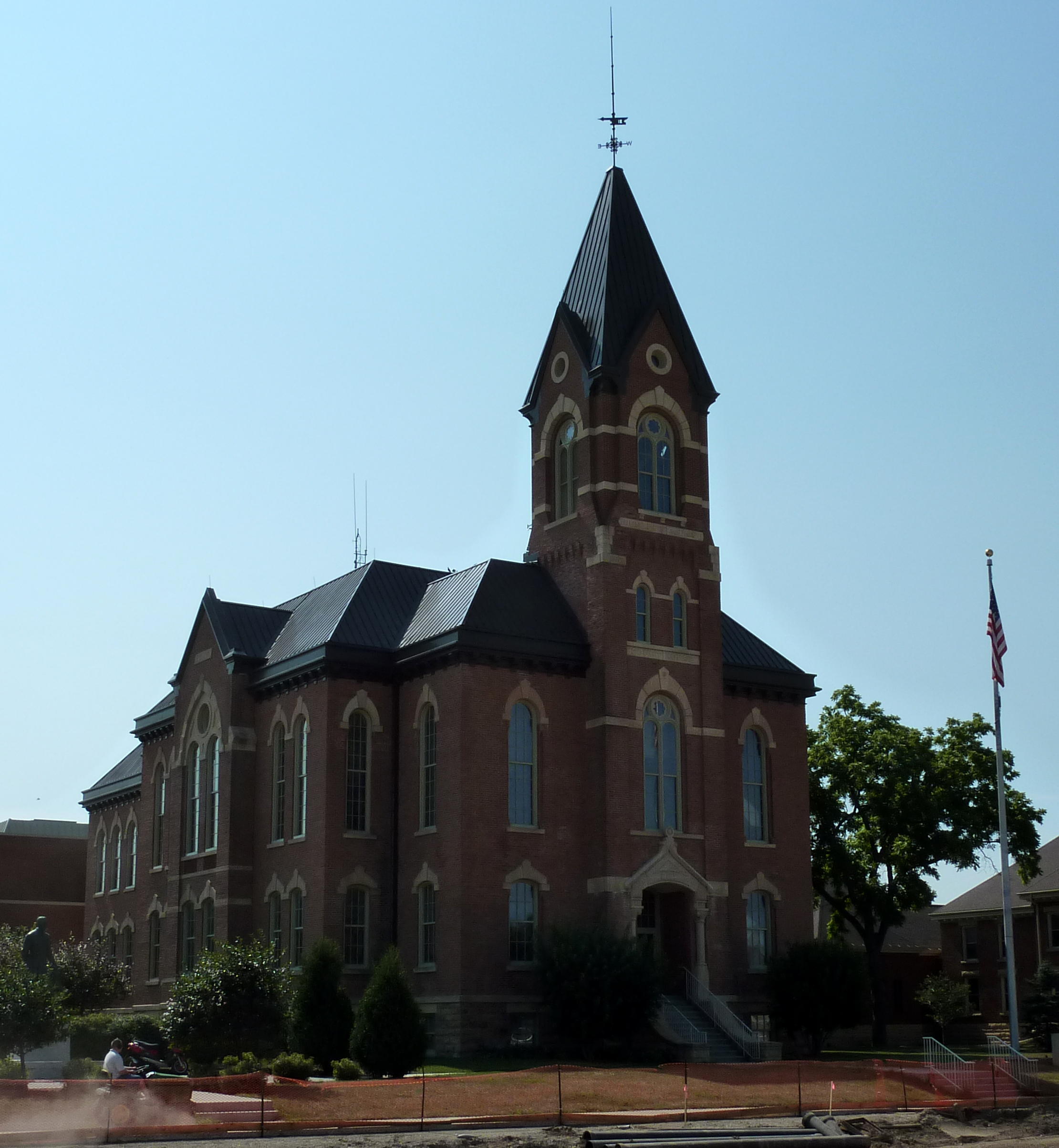 Nicollet County Courthouse and Jail, St. Peter, Minnesota, USA.